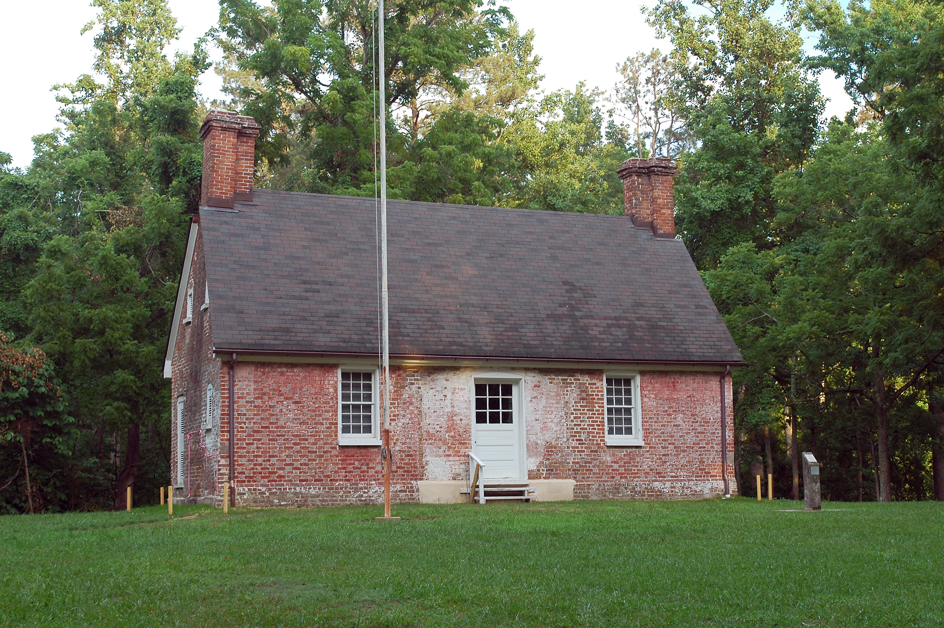 WILLIAMSBURG, Va. (Aug. 1, 2008) File photo of the Lee House, the only original plantation house still standing on Naval Weapons Station Yorktown. Also known as Kiskiack, named after the American Indian tribe in the area, the Lee House was built circa 1650 on land granted to Richard and Henry Lee. The house was kept in the Lee family for nine generations until the government took it over in 1918. Today, the Lee House remains where it originally stood, preserved as part of the Virgina Historic Landmark registry. (U.S. Navy photo by Mark Piggott/Released)